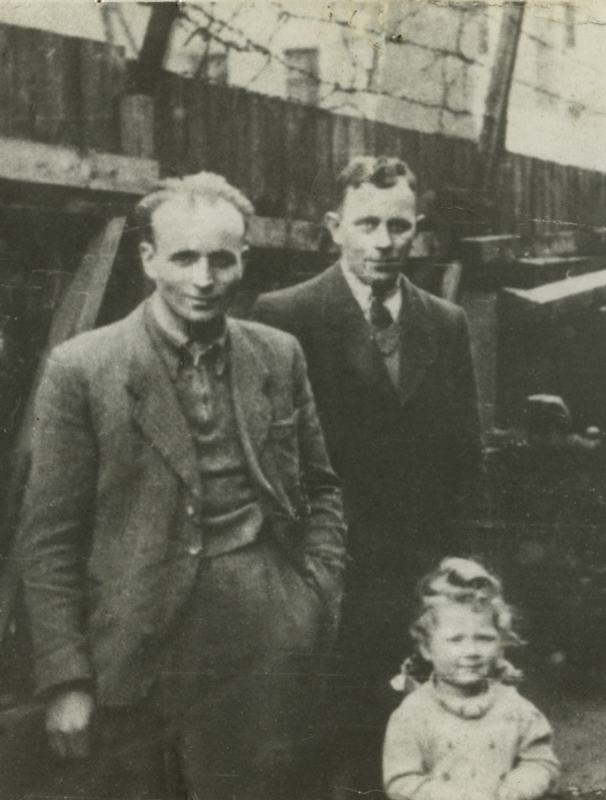 Alojzy Plewa, a Polish Righteous from Sambor who never asked for anything in return, posing with his brother Feliks, and little Ruth rescued from the ghetto, 1942.